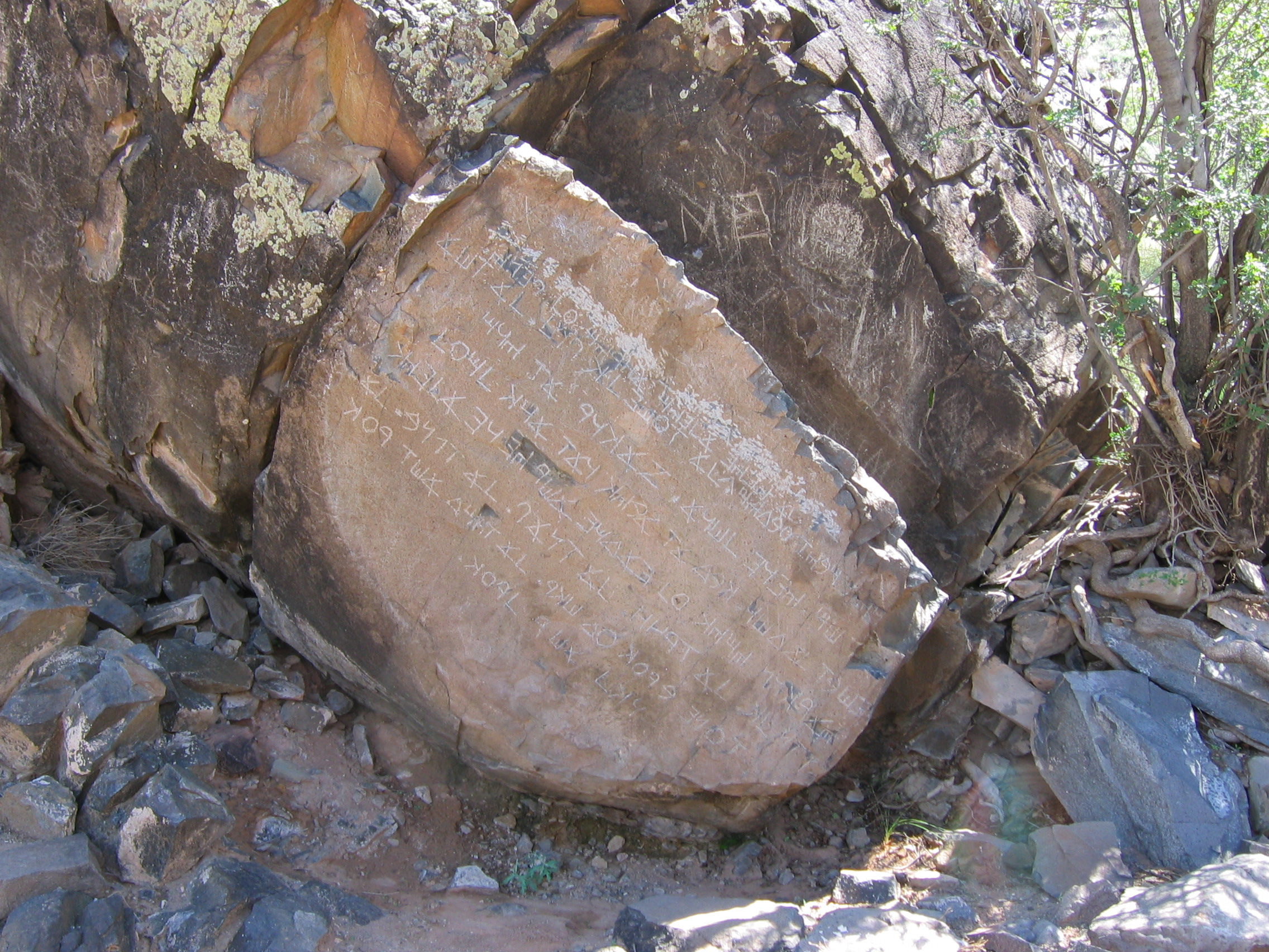 Los Lunas NM Decalogue Stone with first line vandalized. Taken Aug. 13, 2006. Los Lunas Decalogue Stone